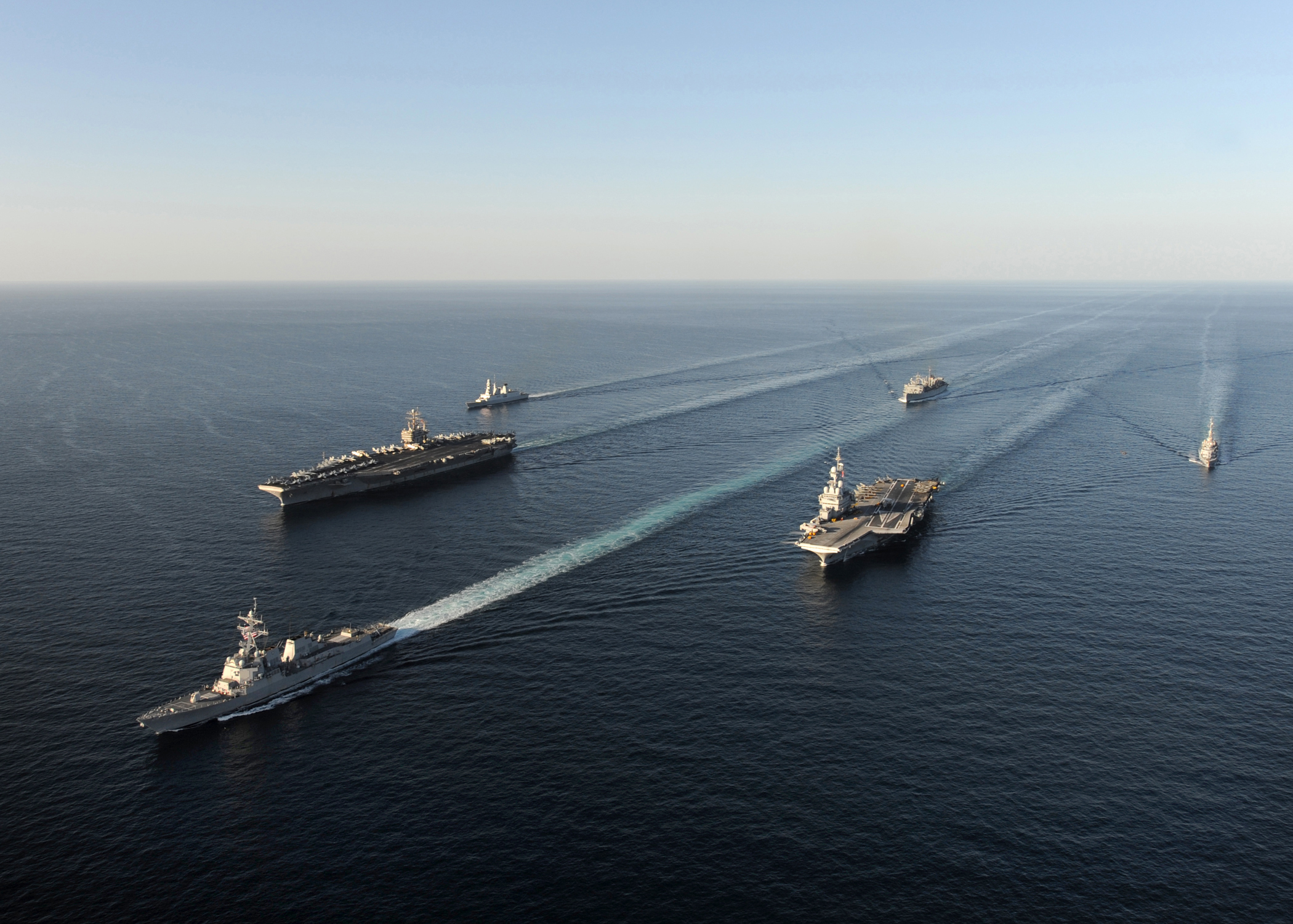 ARABIAN SEA (Dec.10, 2010) USS Halsey (DDG 97), USS Abraham Lincoln (CVN 72), Charles De Gaulle (R 91), FS Forbin (D 620), FS Tourville (D 610) and USNS Rainier (T-AOE 7) join together for a United States and France Navy photo opportunity in the Arabian Sea. Lincoln is currently deployed to the U.S. 5th Fleet area of responsibility in support of maritime security operations and theater security cooperation efforts in the region. (U.S. Navy photo by Chief Mass Communication Specialist Eric S. Powell/Released)